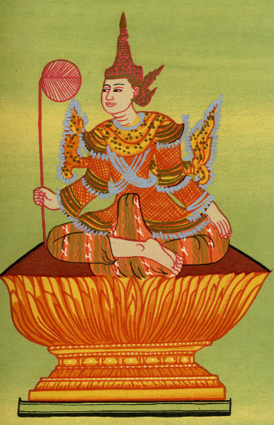 Mintara nat (spirit), th in the official pantheon of Burmese nats